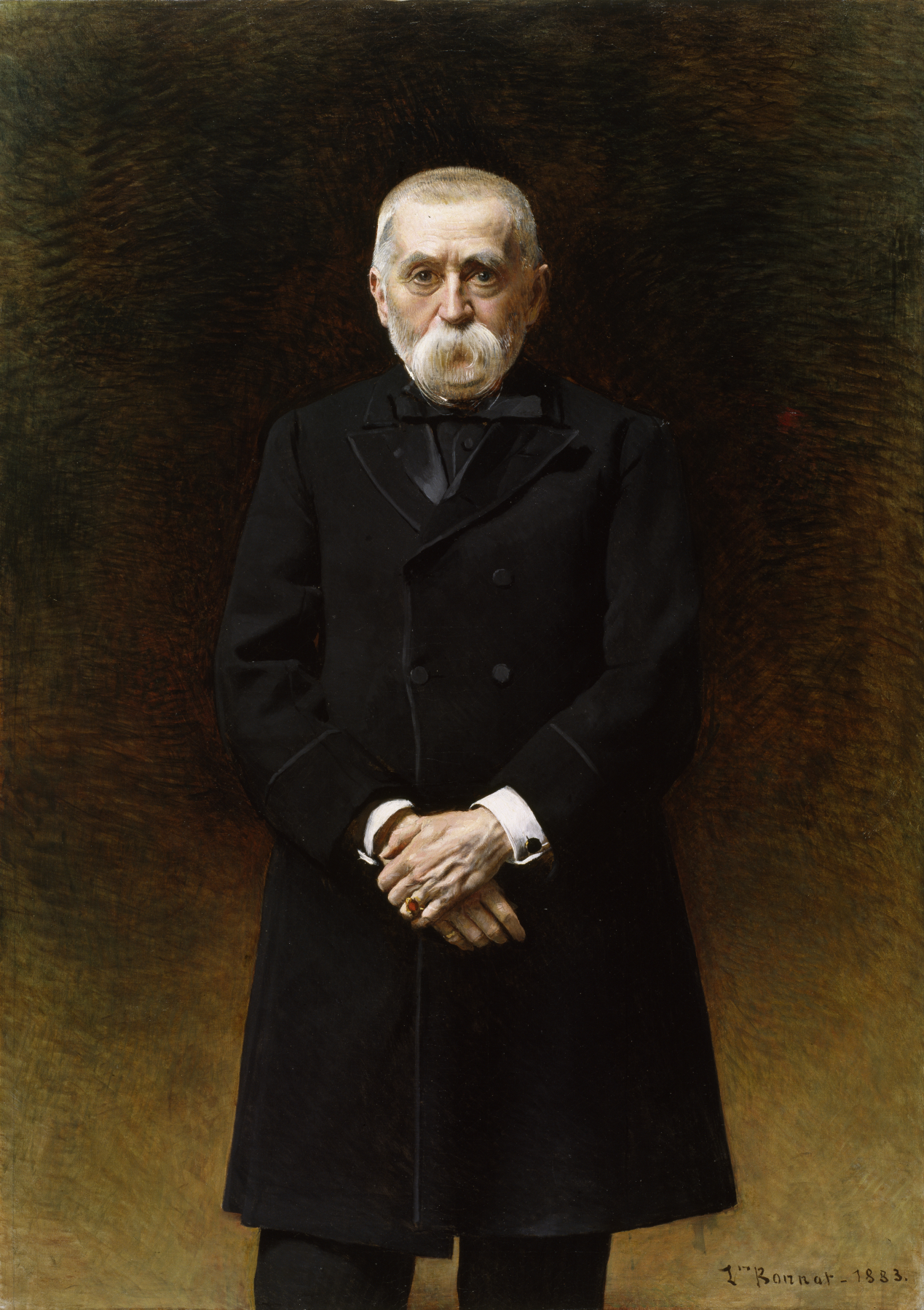 Before moving to Paris in 1854, Bonnat trained in Madrid. The stark realism and sharp contrasts in light and shadow of Bonnat's mature style reflect the influence of the great 17th-century Spanish master Diego Velázquez. Until the late 1870s, Bonnat specialized in historical subjects and scenes inspired by a visit to the Holy Land and Egypt undertaken with J.-L. Gérôme in 1868-1869. During the early years of France's Third Republic (1870-1940), however, Bonnat gained an international following for his dramatically illuminated portraits of statesmen and leaders in many fields. Because of their shared admiration for the animal sculptures of the French artist Antoine-Louis Barye, a close association developed between Bonnat, Walters, and the Baltimore expatriate and art consultant George A. Lucas.